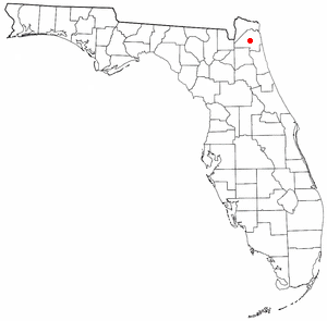 The map shows the Location of Jacksonville in Florida